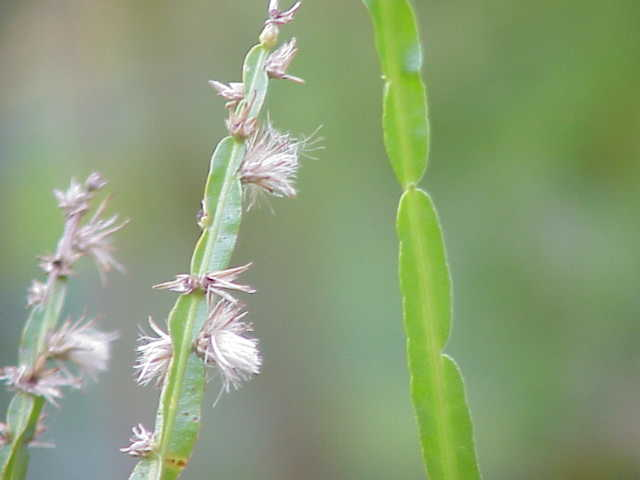 Species: Baccharis genistelloides Family: Asteraceae Image No. 1